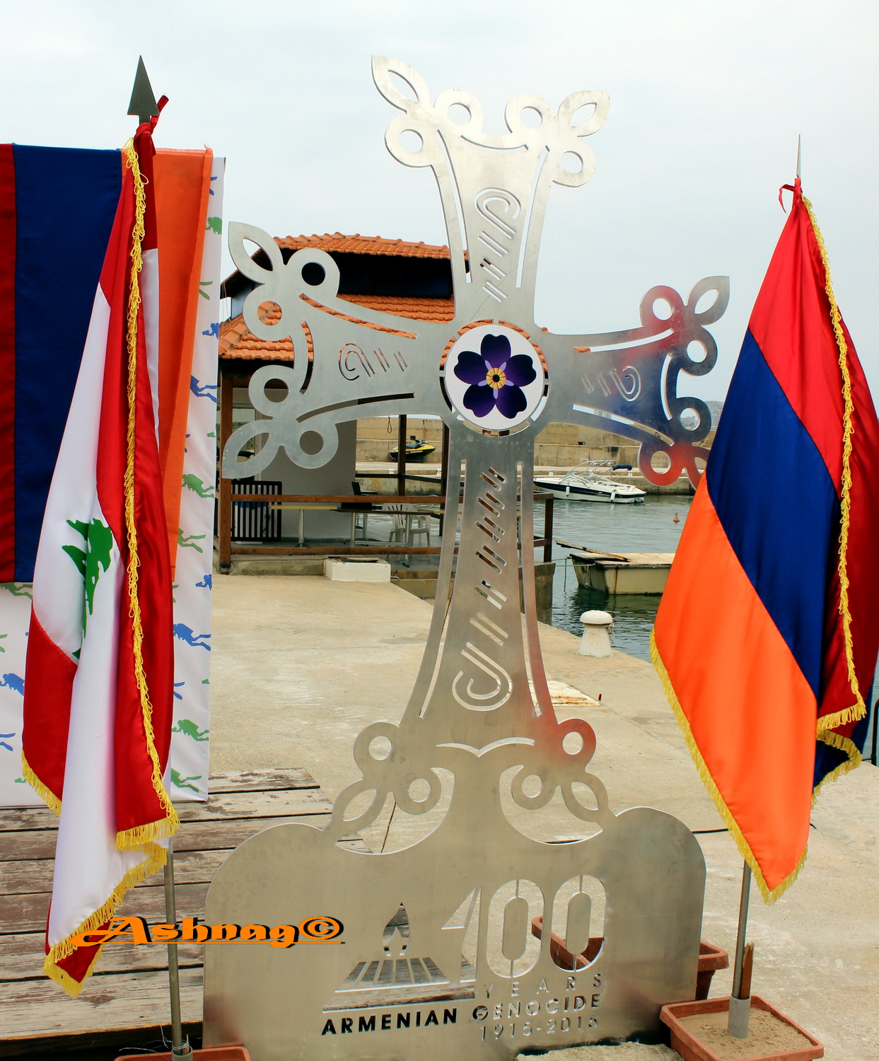 Armenian Genocide Memorial, Mediterrenean Sea